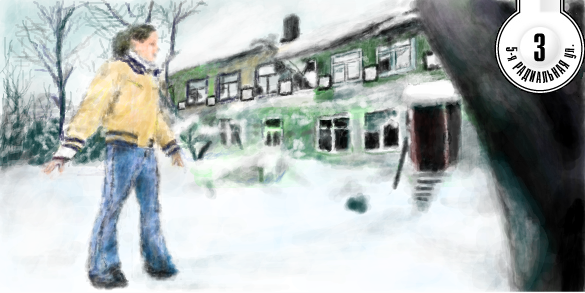 The Muromtsev Dacha (1965 — 2010). Moscow, Pyataya Radialnaya ('Fifth Radial'), 3